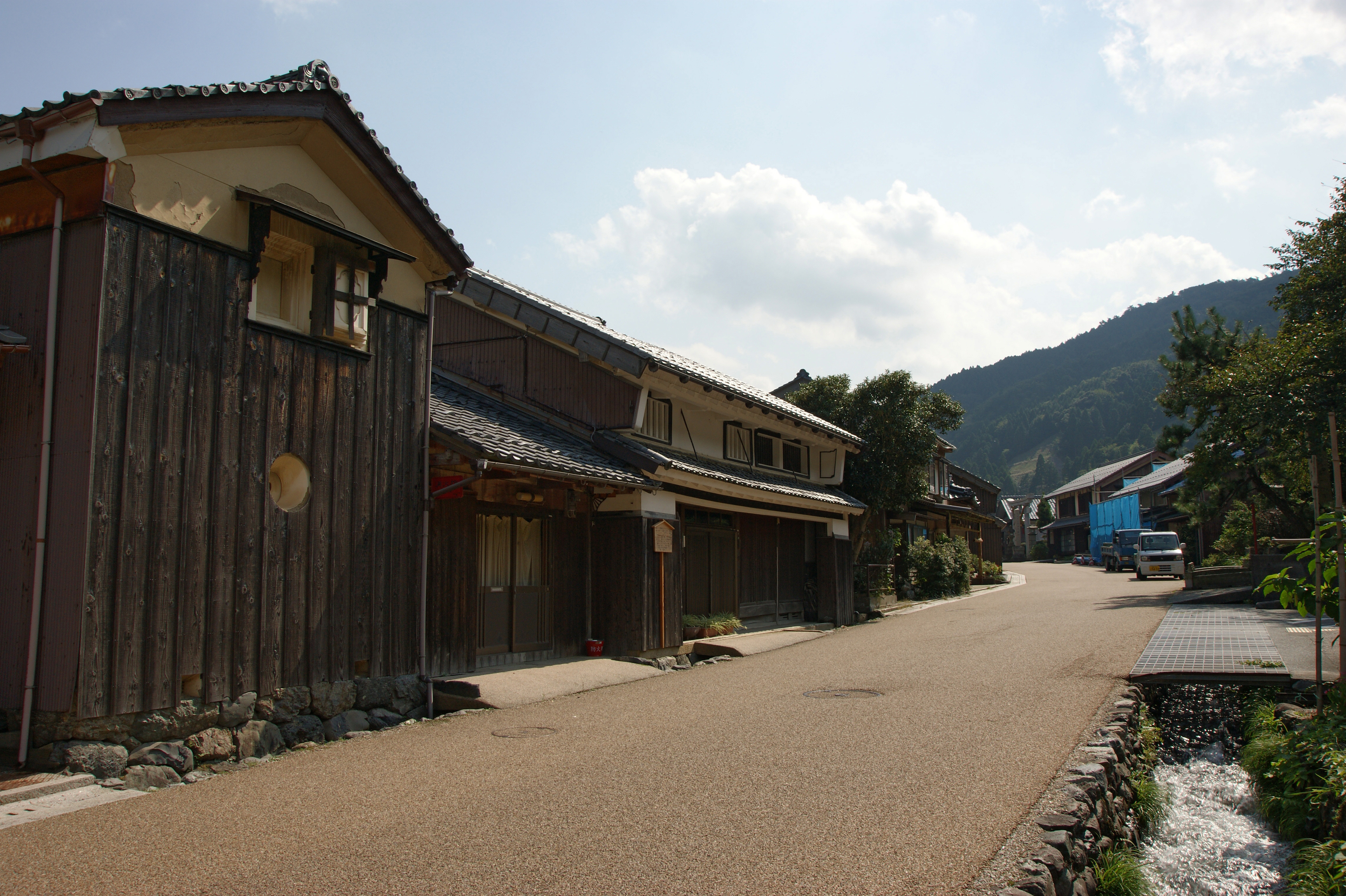 Kumagawa-juku, Wakasa, Fukui prefecture, Japan